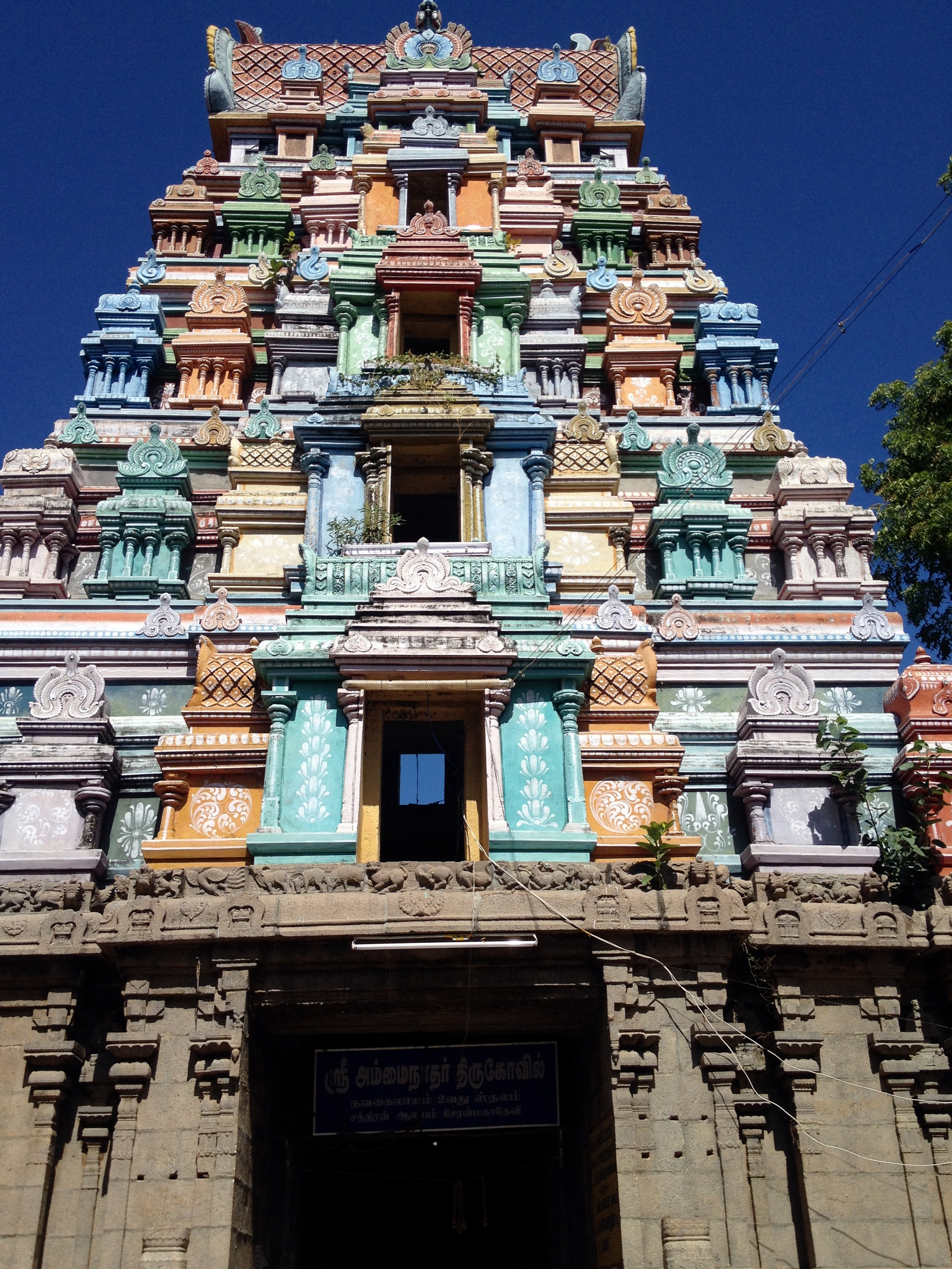 Cheranmahadevi Ammainathar Temple